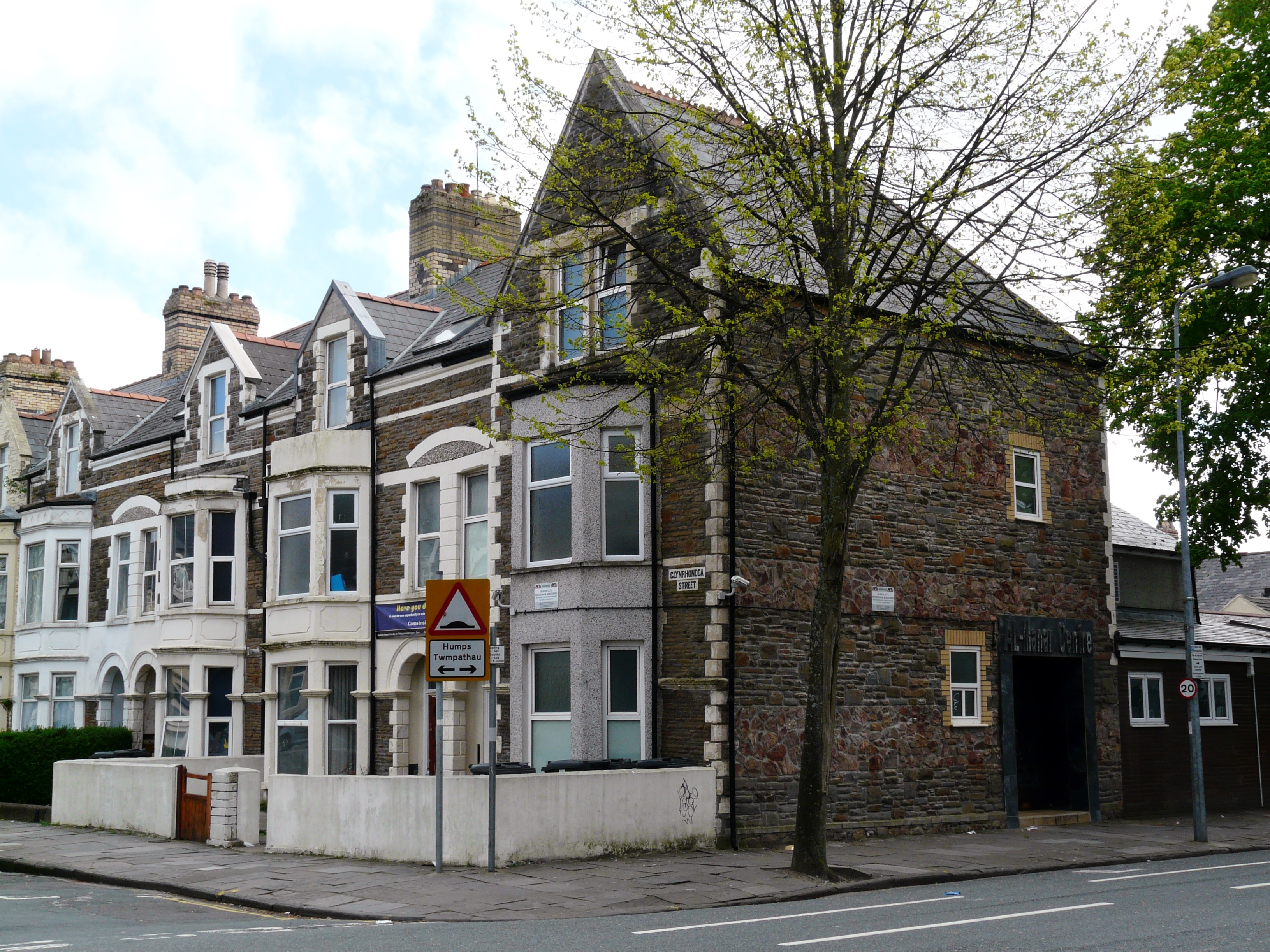 Al-Manar Islamic and Cultural Centre, 2 Glynrhondda Street, Cardiff